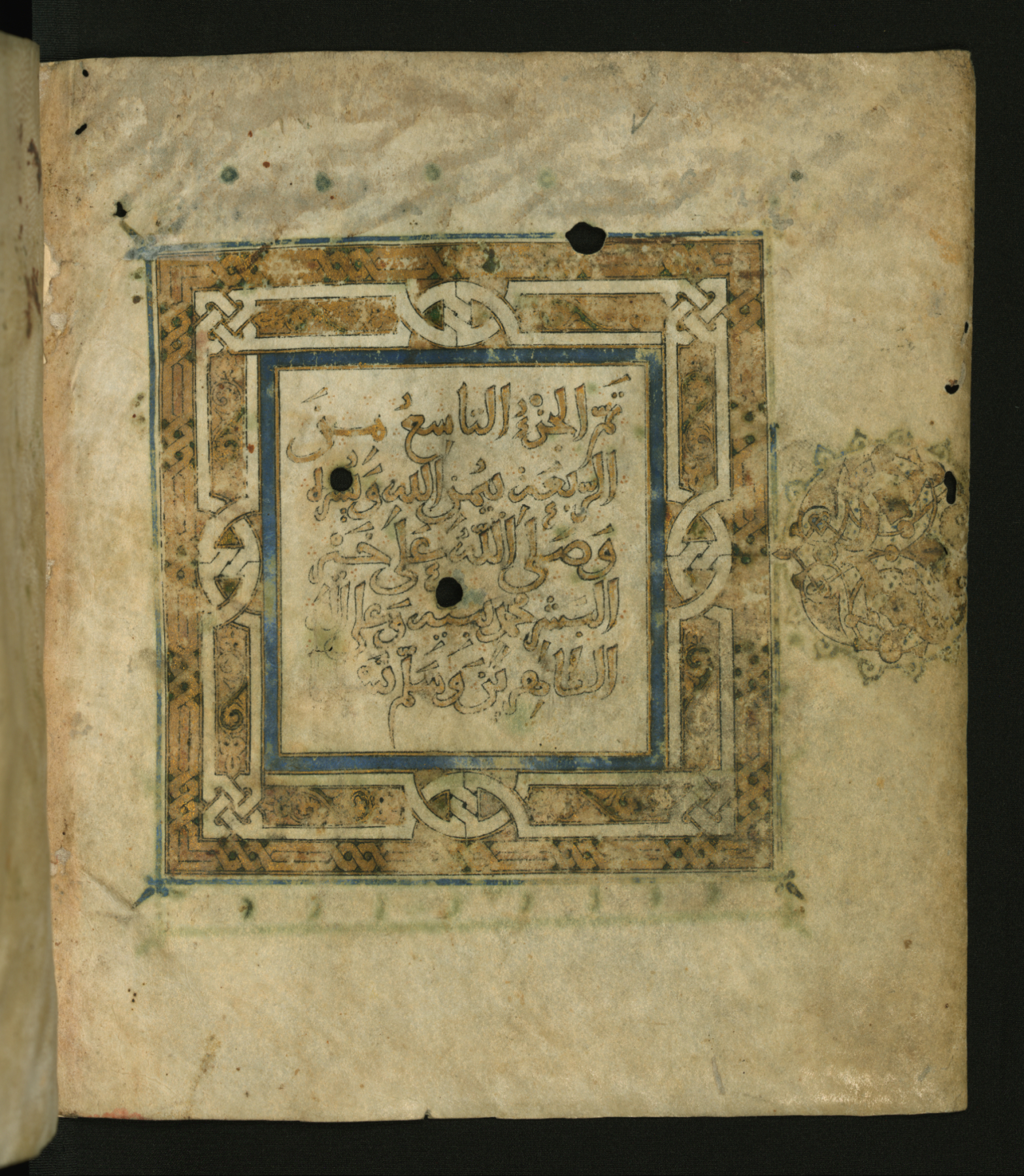 This decorated finispiece from Walters manuscript W.556 contains a colophon inscribed in Mashriqi (also known as Thuluth Maghribi) script stating that this is the end of volume 9 of the Qur'an (al-juz' al-tasi' min al-rab'ah) and offering a prayer for the Prophet Muhammad and his family. The text is framed by an inner band of blue and gold and two outer bands of interlace design in gold, blue, and white in reserve. At right is a marginal medallion palmette.